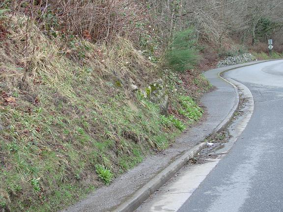 This picture shows a hillside that is slowly moving over the sidewalk. You can see the entire sidewalk towards the back of the picture in the distance and then see the hillside in the front of the picture that is slowly covering the sidewalk reducing its width. It is very well possible that with time it could cover an entire portion of the sidewalk blocking a section of it. This also offers some visual evidence of the presence of creep. (photo taken at Western Washington University Bellingham, WA)